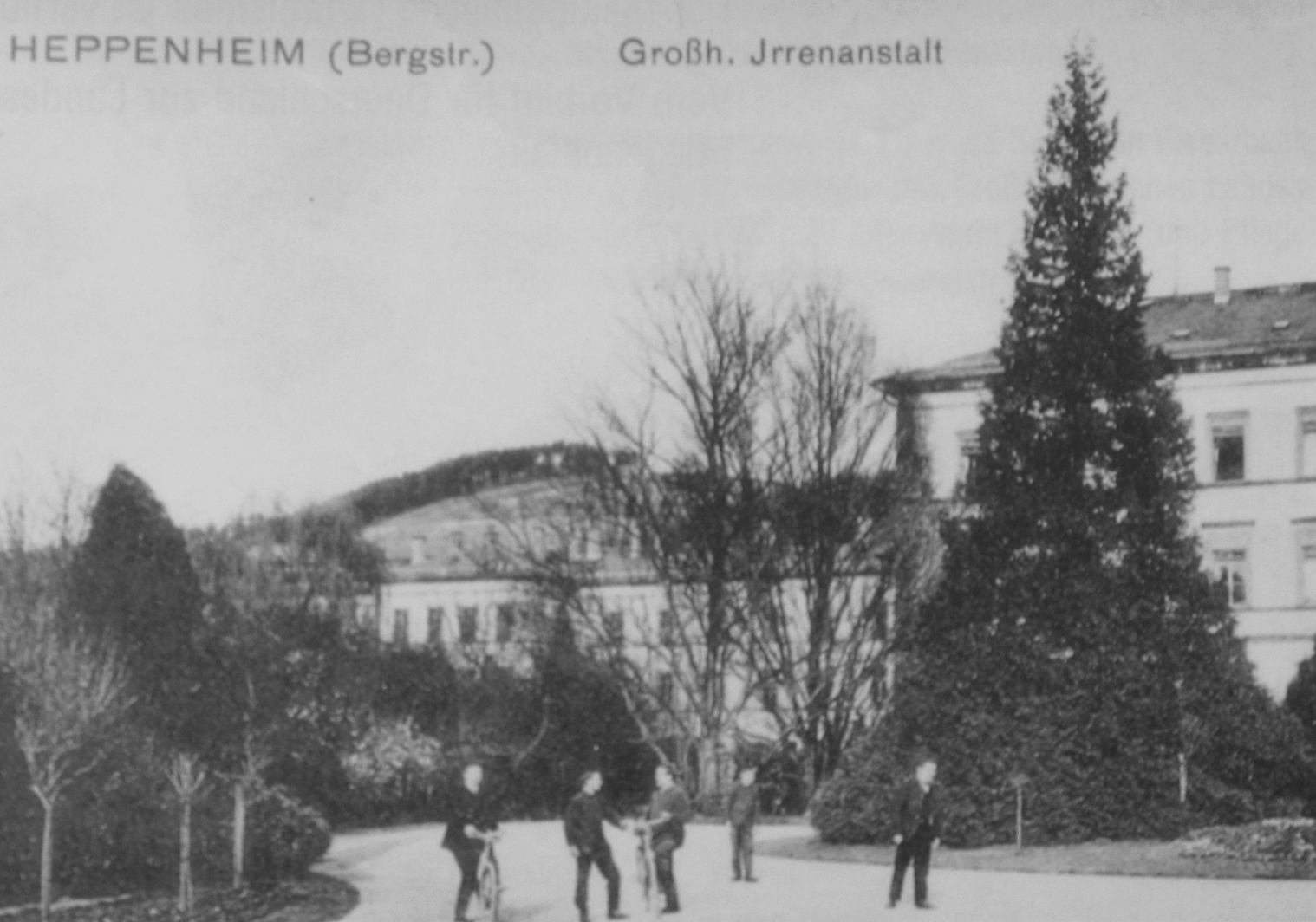 Inner courtyard of the asylum near Heppenheim/Bergstraße